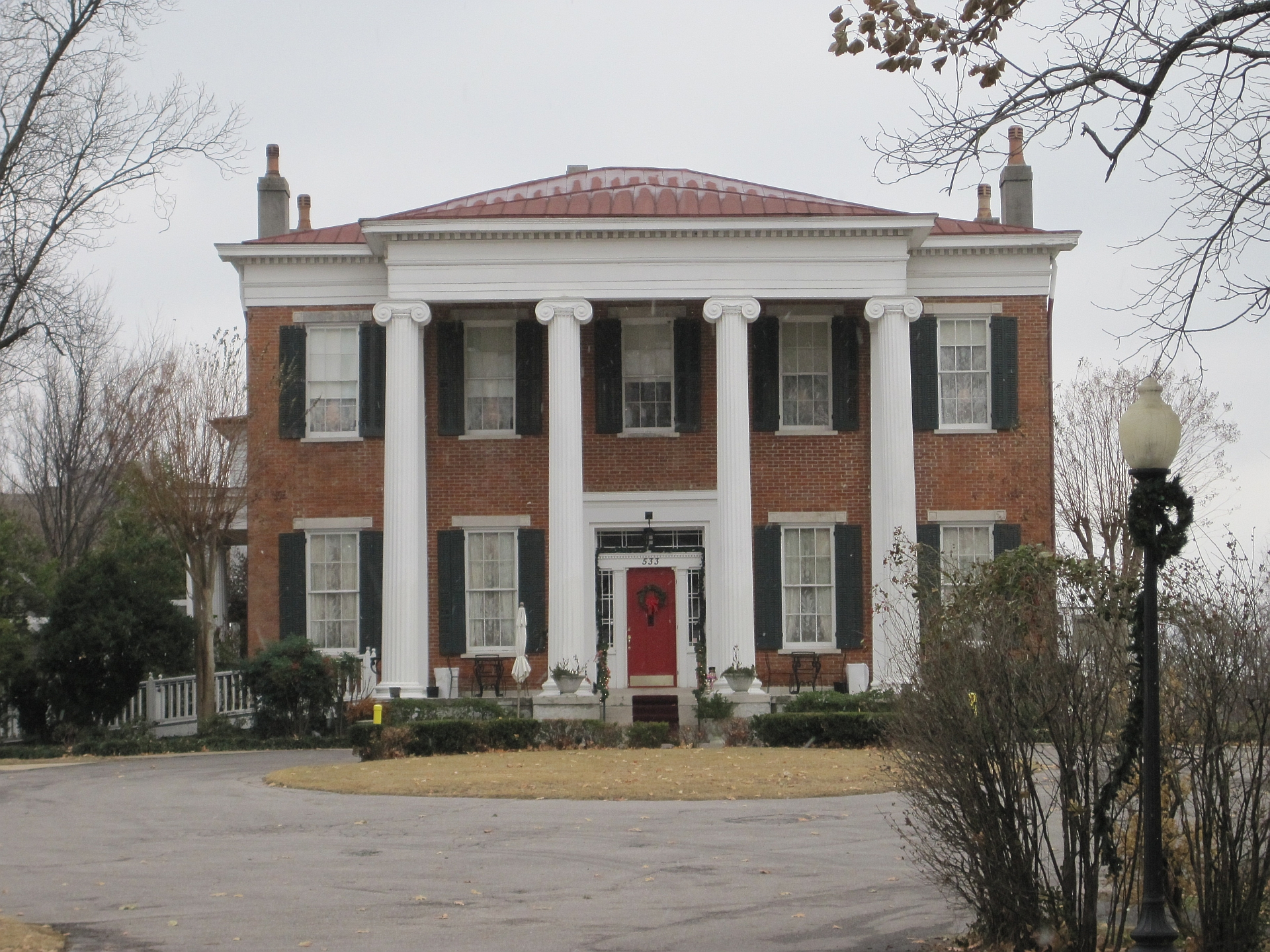 Hunt-Phelan House at 533 Beale Street in Memphis, Tennessee.